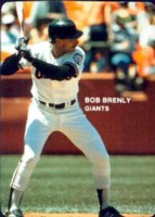 A baseball card of the San Francisco Giants' catcher Bob Brenly from the 1985 Mother's Cookies San Francisco Giants trading cards set. The card is numbered #7 in the set.